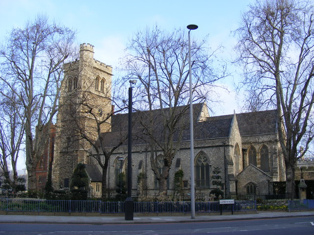 Former parish church of St Mary-at-Lambeth, London, seen from the south. Rebuilt in 1851 to designs by Philip Charles Hardwick. The former church is now the Garden Museum.